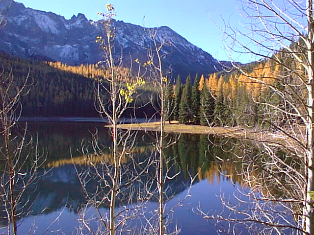 Strawberry Lake in the Strawberry Mountain Wilderness, within the Malheur National Forest in northeastern Oregon, USA.